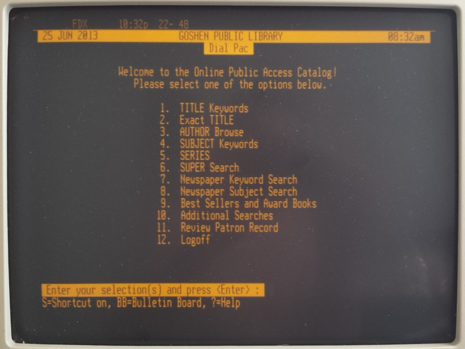 Photo of Dynix on a Wyse WY-60 serial terminal, showing the main menu when accessed via Telnet. This is the catalog of the Goshen Public Library in Goshen, Indiana; access can be had by telnetting to 165.138.220.1 on default port (23), username and password are both 'library' (no apostrophes); still valid as of June 26, 2013. As of February 8, 2018, the port was closed.